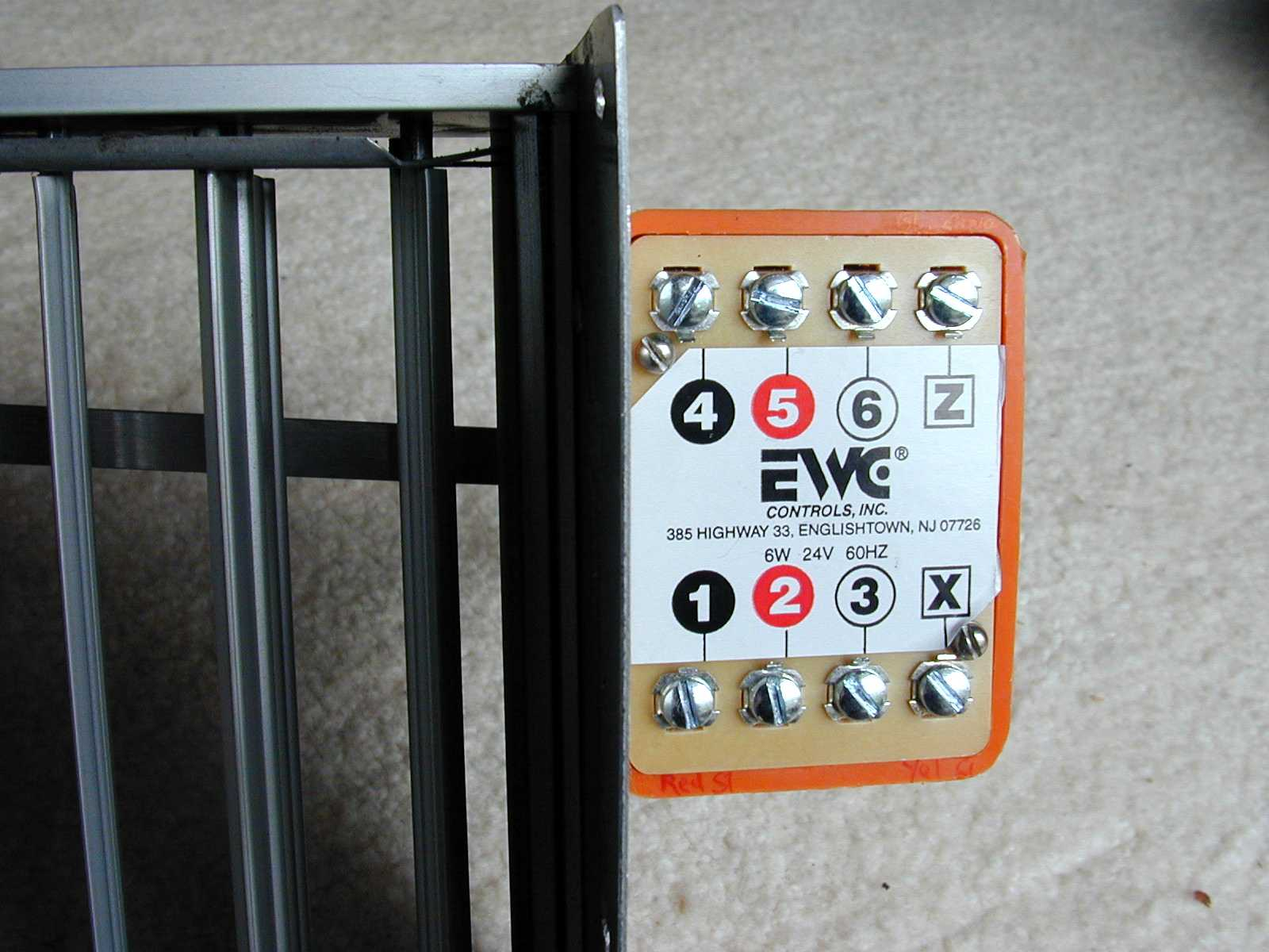 Connection panel for an opposed-blade, motor-closed, motor-open Zone Damper